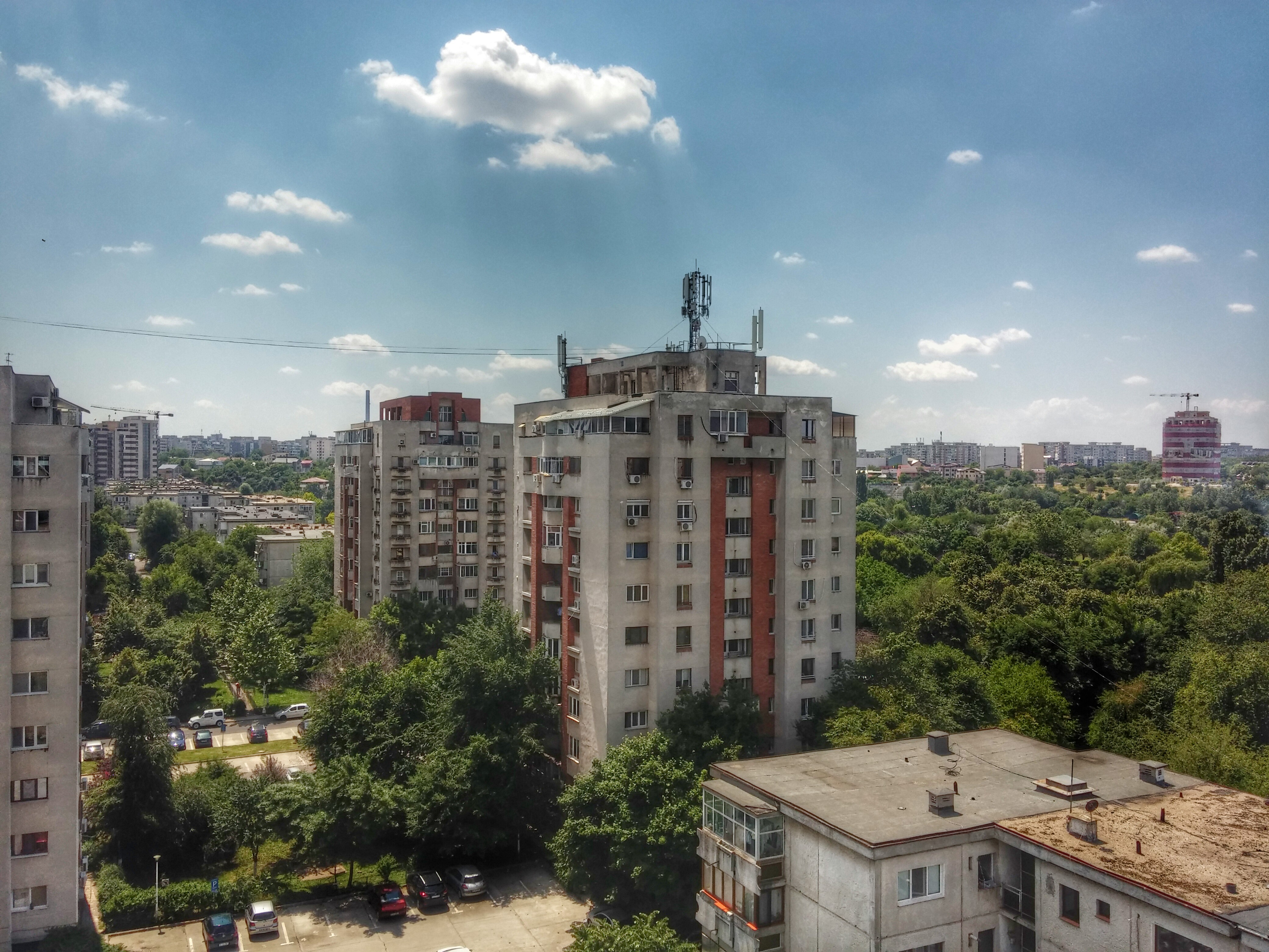 Image from Văcareşti Hood